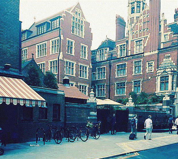 A photograph of the Chiltern Firehouse hotel and restaurant.